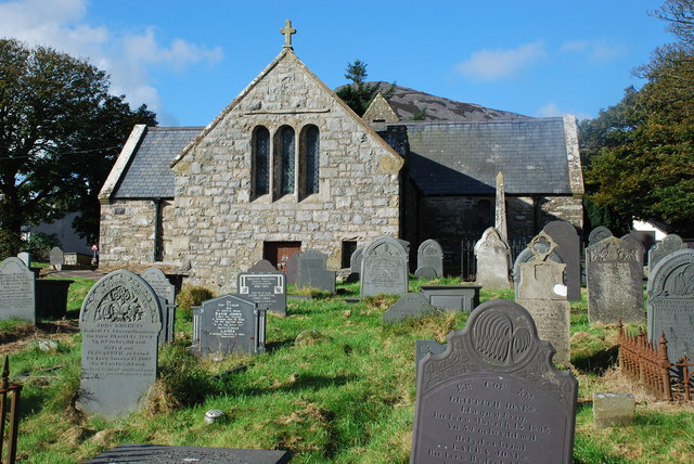 Eglwys S Aelhaearn Llanaelhaearn. The east end of 588724 looking towards the slopes of Tre'r Ceiri which dominate the village.